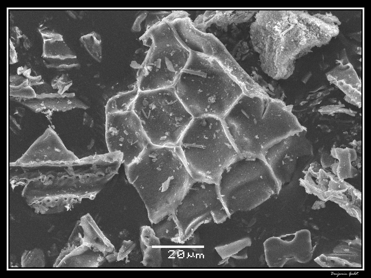 Phytoliths are extracted from plant material (Elephant Grass) by dry ashing method, adapted from Parr et al, 2001 . A sample of phytoliths extracted from the elephant grass was analyzed by Scanning Electron Microscope (SEM) JEOL JSM 6360LV assisted by ESPRIT software processing 1.9. This observation reveals that the product is mainly composed of silicon and oxygen with occasional trace elements (Al, Ti, Fe, ...). Parr JF , CJ Lentfer and WE Boyd (2001) A comparative analysis of wet and dry technology for the extraction of phytoliths from plant material ashing . Journal of Archaeological Science 28 , 875-886 .